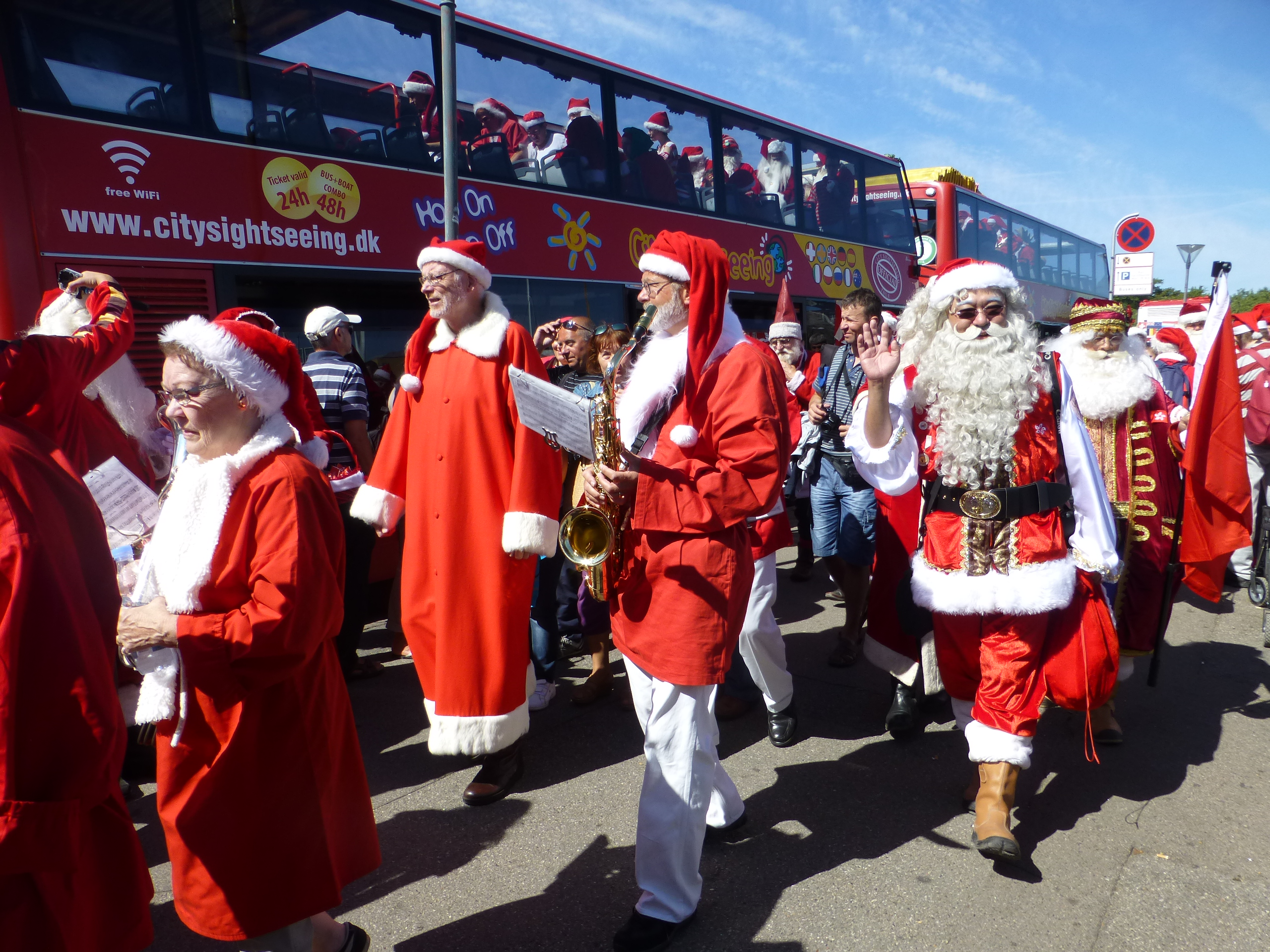 World Santa Claus Congress 2014. Visit at the Little Mermaid in Østerbro in Copenhagen.